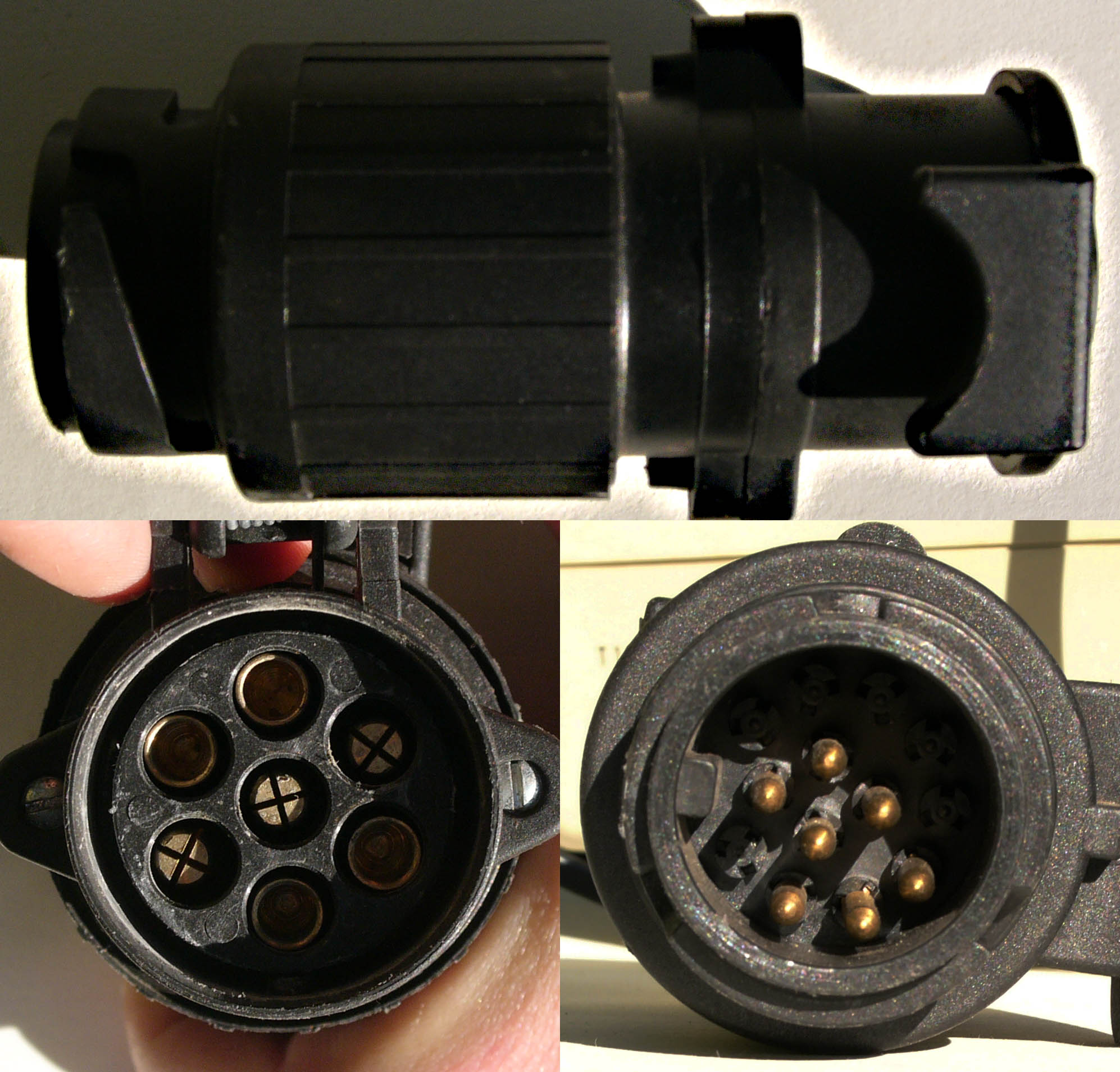 Trailer coupling adapter 13-pin plug according to ISO 11446 to 7-pin socket according to ISO 1724. 13-pin plug therefore only partly assembled